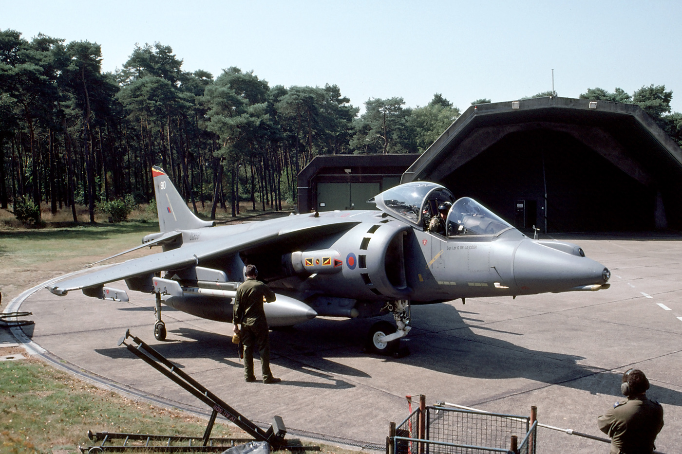 ZG858 at RAF Laarbruch in Germany on 31 July 1997. This photo taken during a base visit.